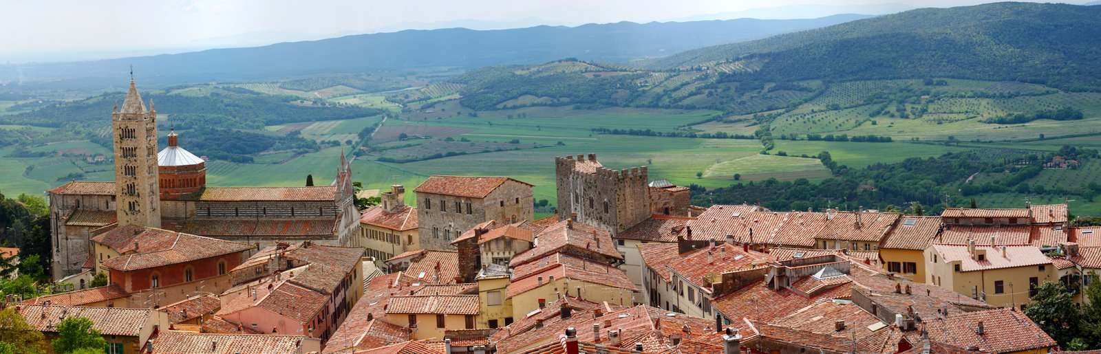 Panoramic view of Massa Marittima